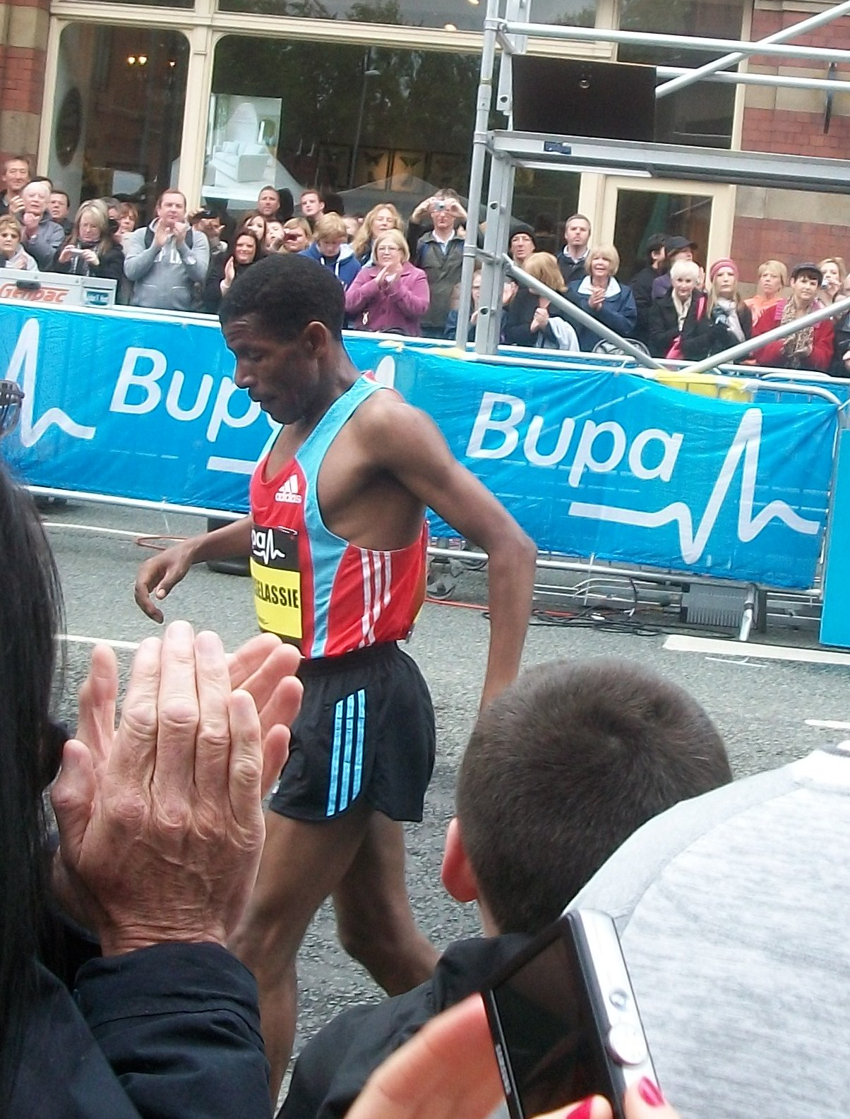 Haile Gebrselassie after passing the finish line to win at the 2010 Great Manchester Run in Manchester, United Kingdom (16 May 2010).